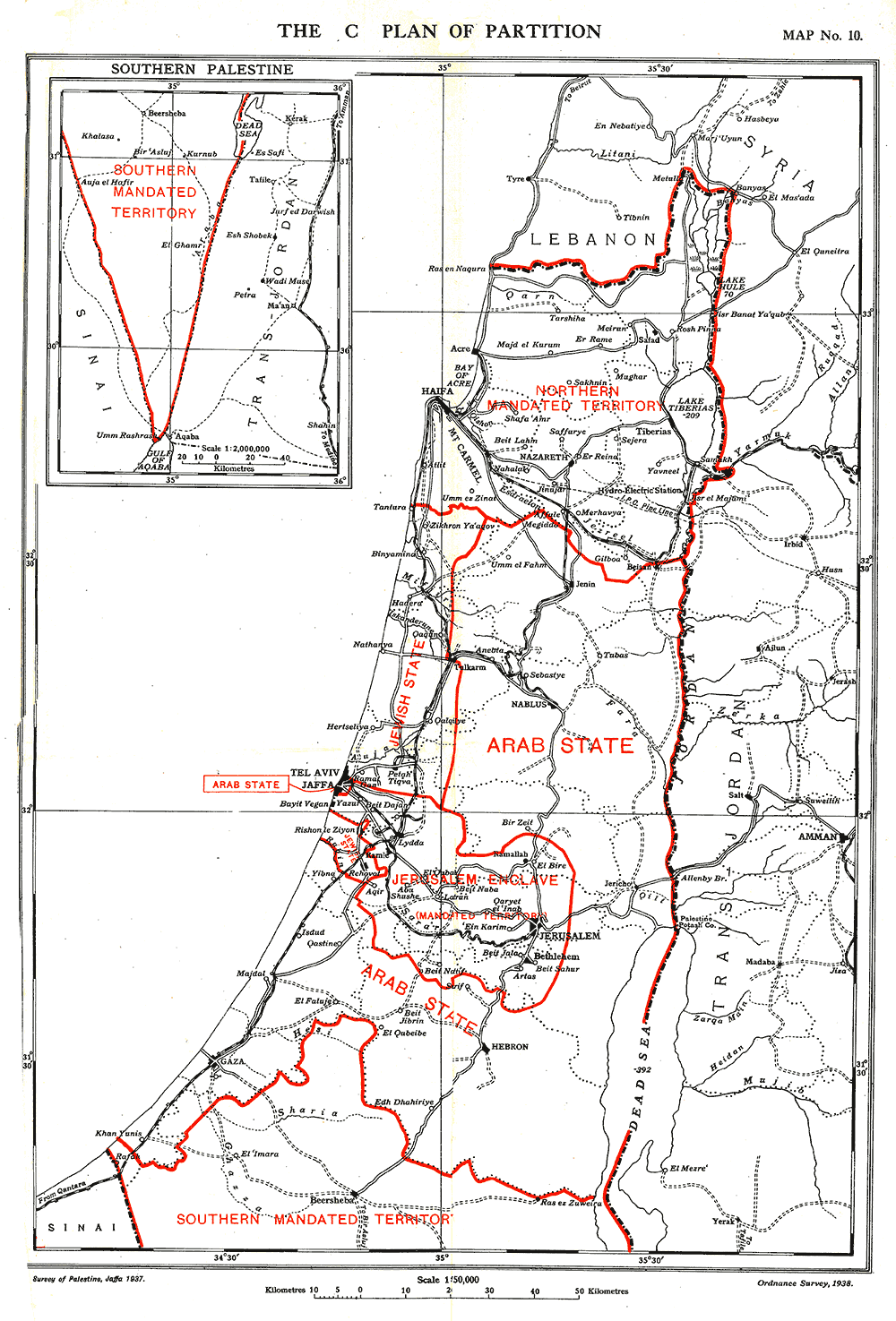 Palestine Partition Commission (Woodhead Commission), partition proposal C.